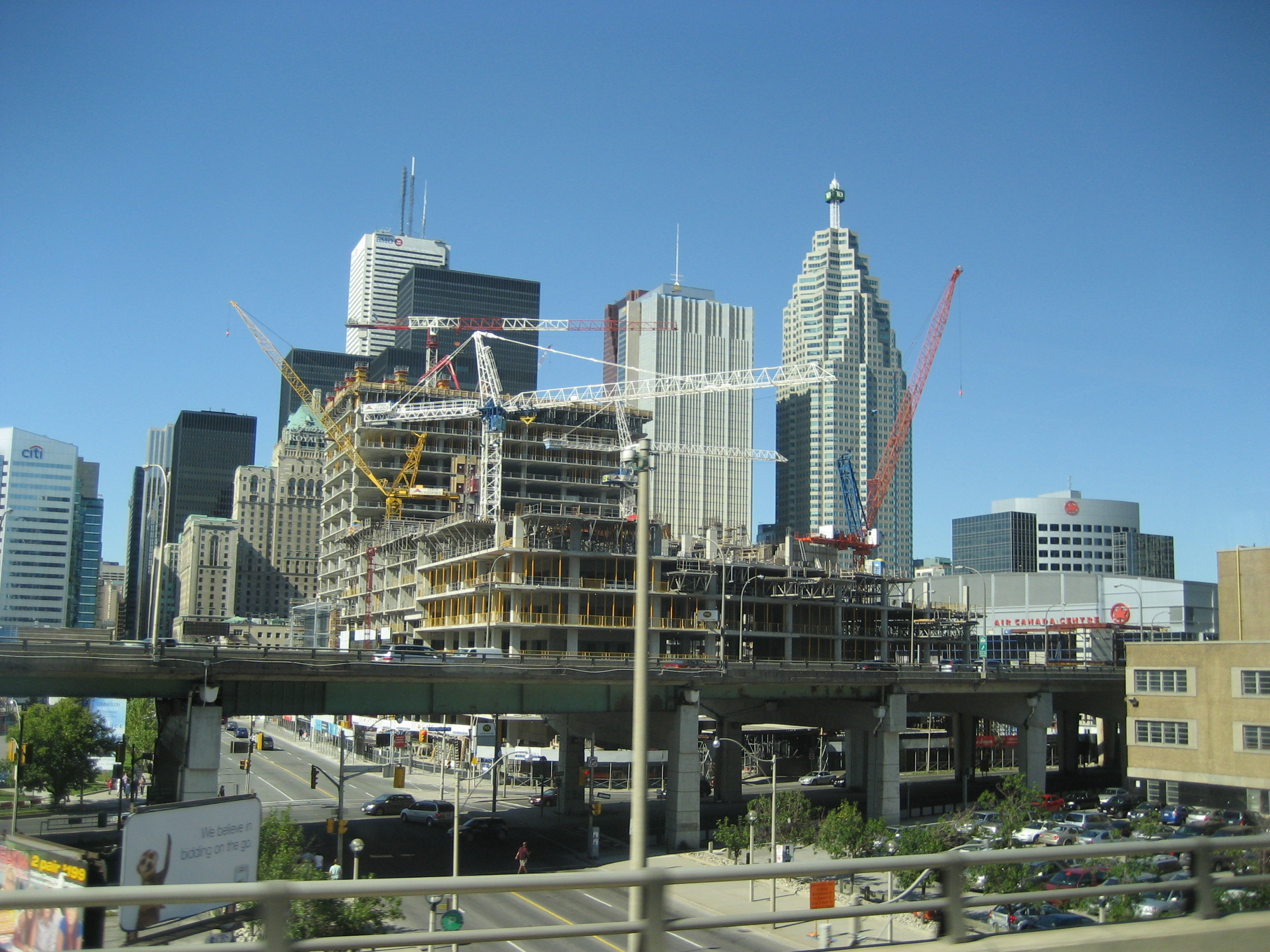 Gardiner Expressway, Toronto, Ontario.